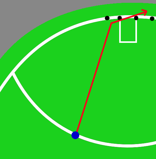 Diagram of the goal Angus Monfries kicked in the last showdown at Football Park. On the 50m line he kicked a goal that bounced in front of the behind line to go through for a goal.